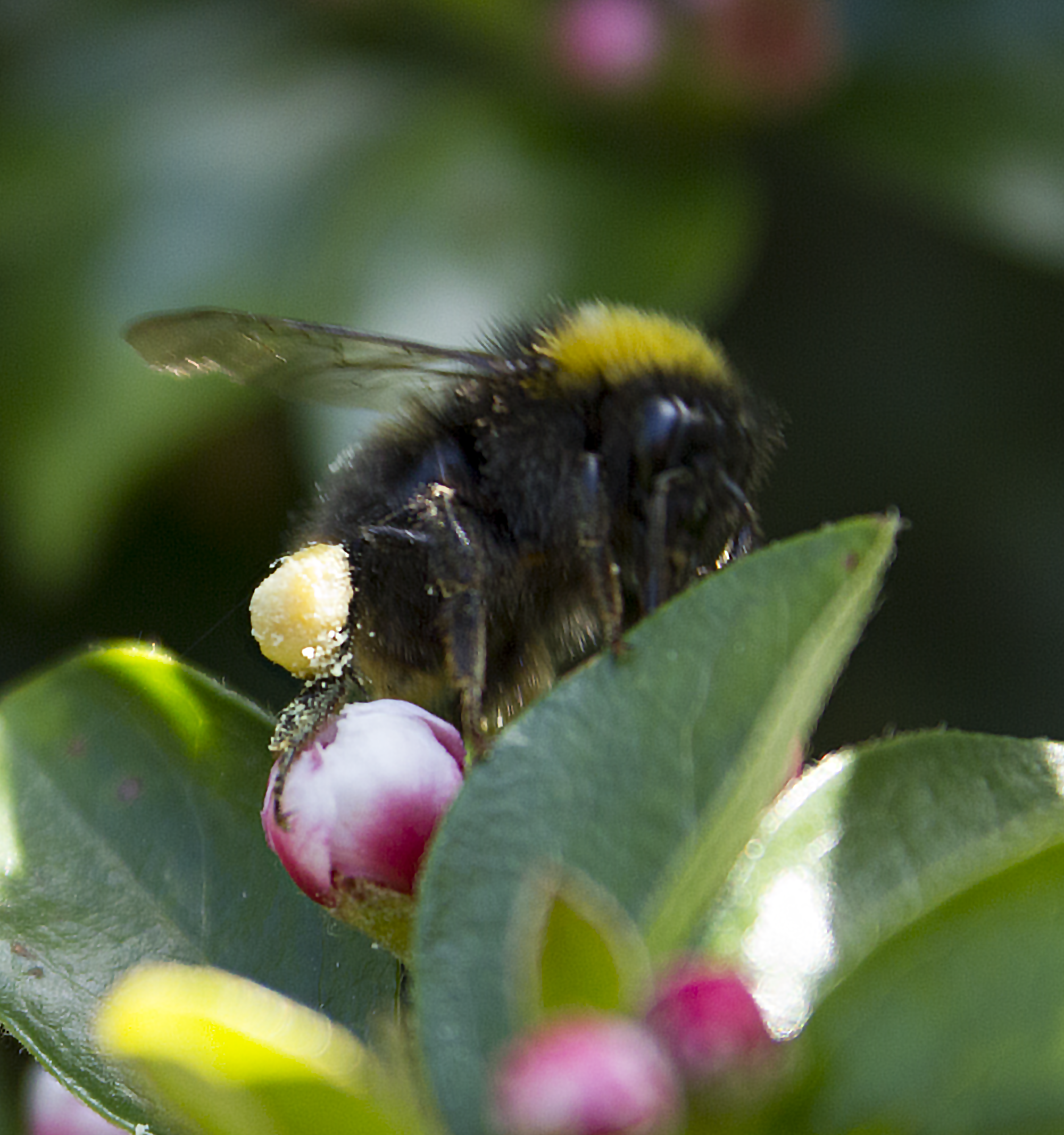 Bumblebee with clearly visible pollen in its baskets.